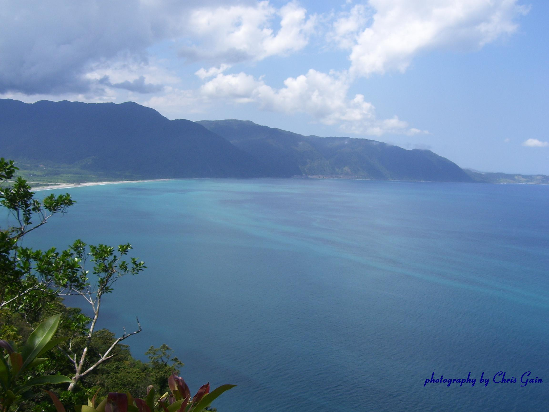 Pasaleng Bay, Ilocos Norte province. Northern terminus of the Cordillera Central range of Luzon, the Philippines